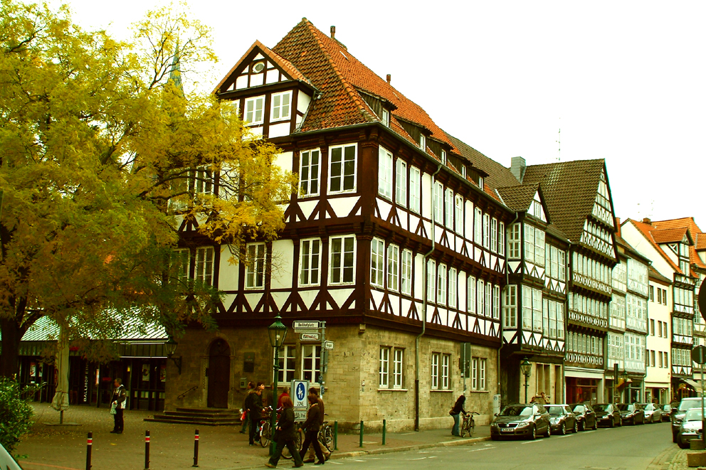 Burgstraße (Hannover)